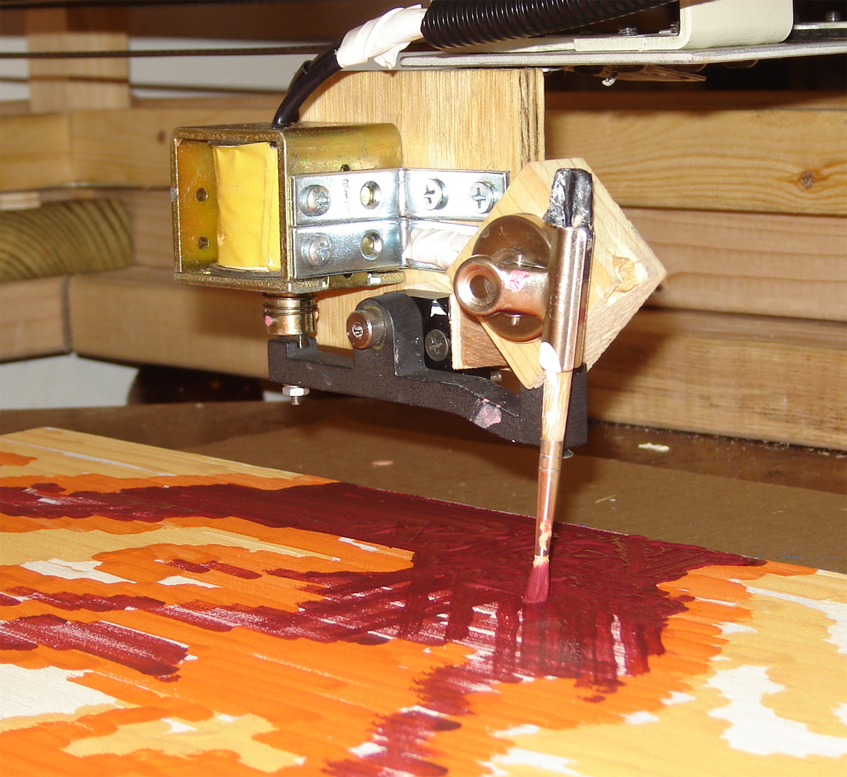 This image is mine and I release it to the public domain